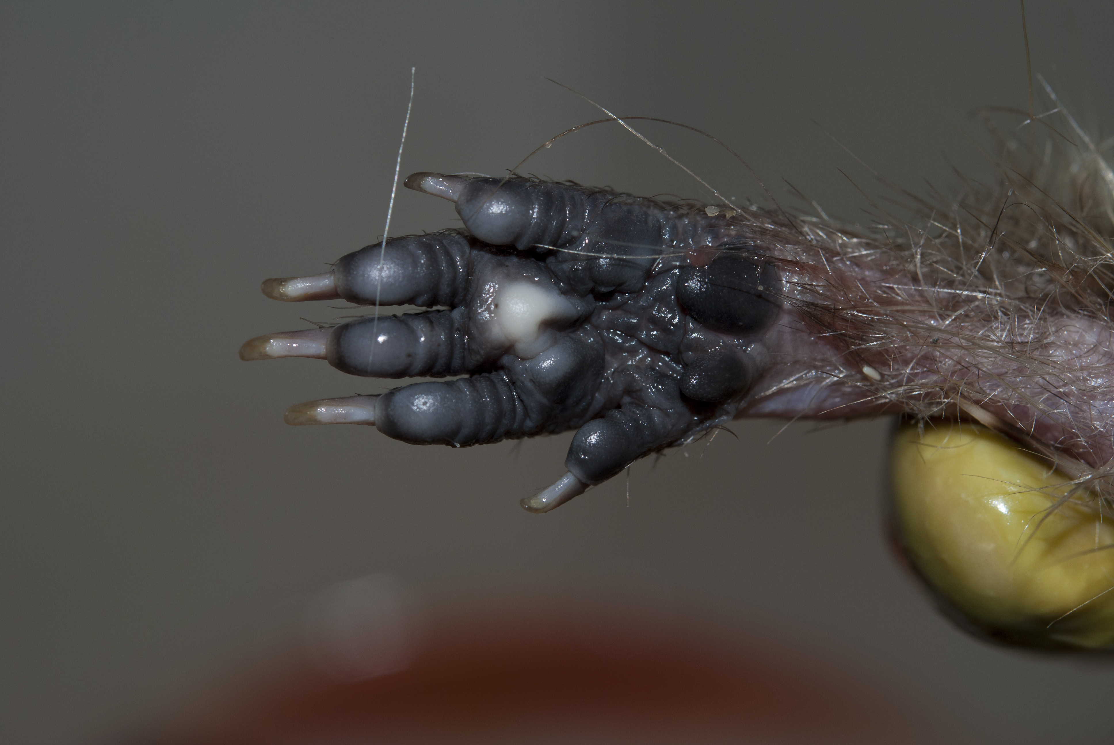 Palm and section of arm of forleg of an Erinaceus europaeus